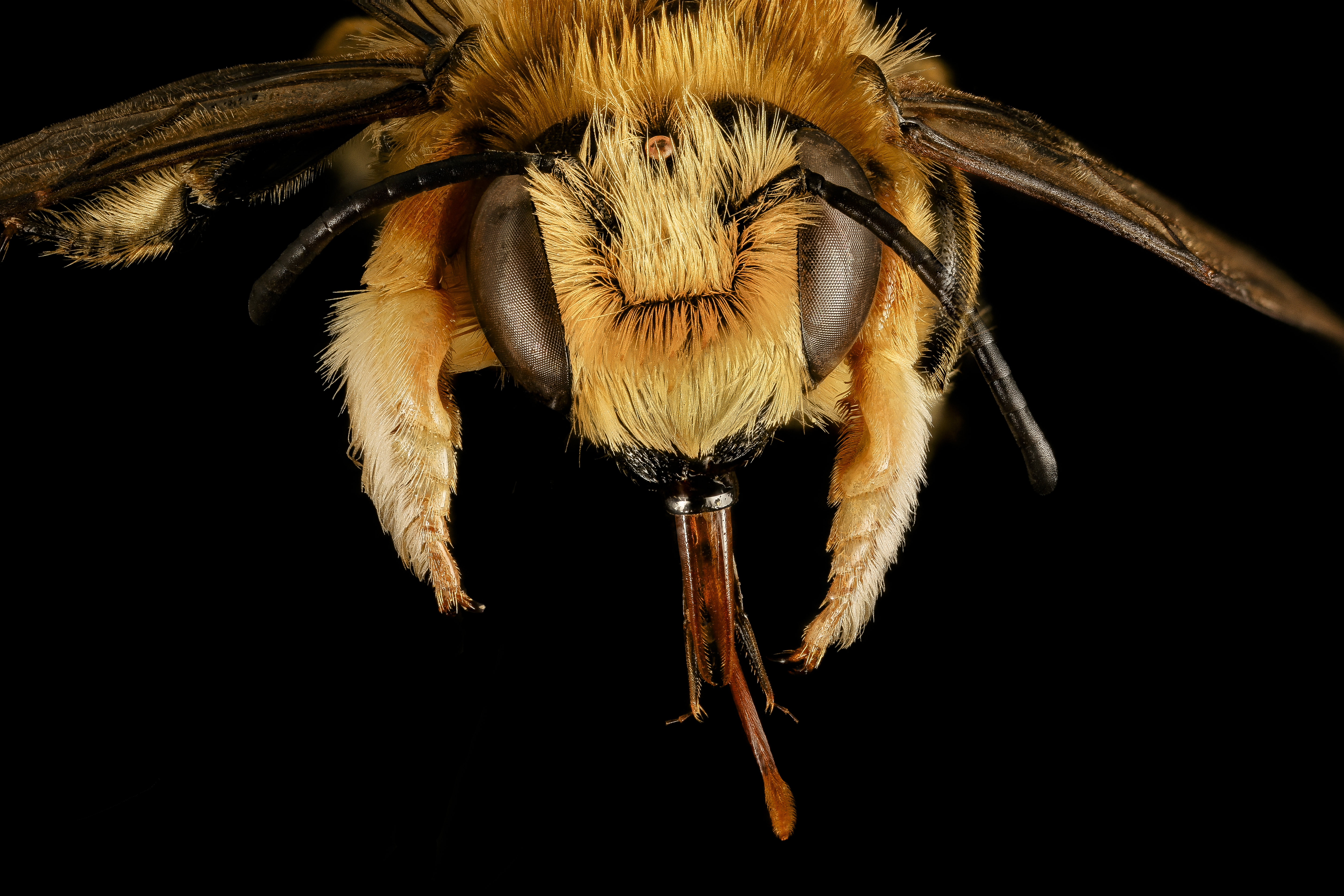 A common and large leafcutting bee from Maine, collected by Brianne Du Clos. This is a male and note the large expanded tarsal segments on the front legs. These are used to hide the females eyes during mating. Dejen Mengis is the photographer. 02:51, 29 February 2016 (UTC)02:51, 29 February 2016 (UTC) 0 02:51, 29 February 2016 (UTC)02:51, 29 February 2016 (UTC) All photographs are public domain, feel free to download and use as you wish. Photography Information: Canon Mark II 5D, Zerene Stacker, Stackshot Sled, 65mm Canon MP-E 1-5X macro lens, Twin Macro Flash in Styrofoam Cooler, F5.0, ISO 100, Shutter Speed 200 Beauty is truth, truth beauty - that is all Ye know on earth and all ye need to know " Ode on a Grecian Urn" John Keats You can also follow us on Instagram account USGSBIML Want some Useful Links to the Techniques We Use? Well now here you go Citizen: Art Photo Book: Bees: An Up-Close Look at Pollinators Around the World Basic USGSBIML set up: USGSBIML Photoshopping Technique: Note that we now have added using the burn tool at 50% opacity set to shadows to clean up the halos that bleed into the black background from "hot" color sections of the picture. PDF of Basic USGSBIML Photography Set Up: ftp://ftpext.usgs.gov/pub/er/md/laurel/Droege/How%20to%20Take%20MacroPhotographs%20of%20Insects%20BIML%20Lab2.pdf Google Hangout Demonstration of Techniques: or Excellent Technical Form on Stacking: Contact information: Sam Droege 301 497 5840